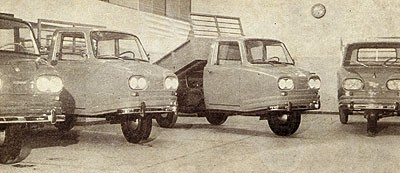 Styl Kar 1300 (1968 model) in a company showroom. Photograph taken in Athens in 1969.